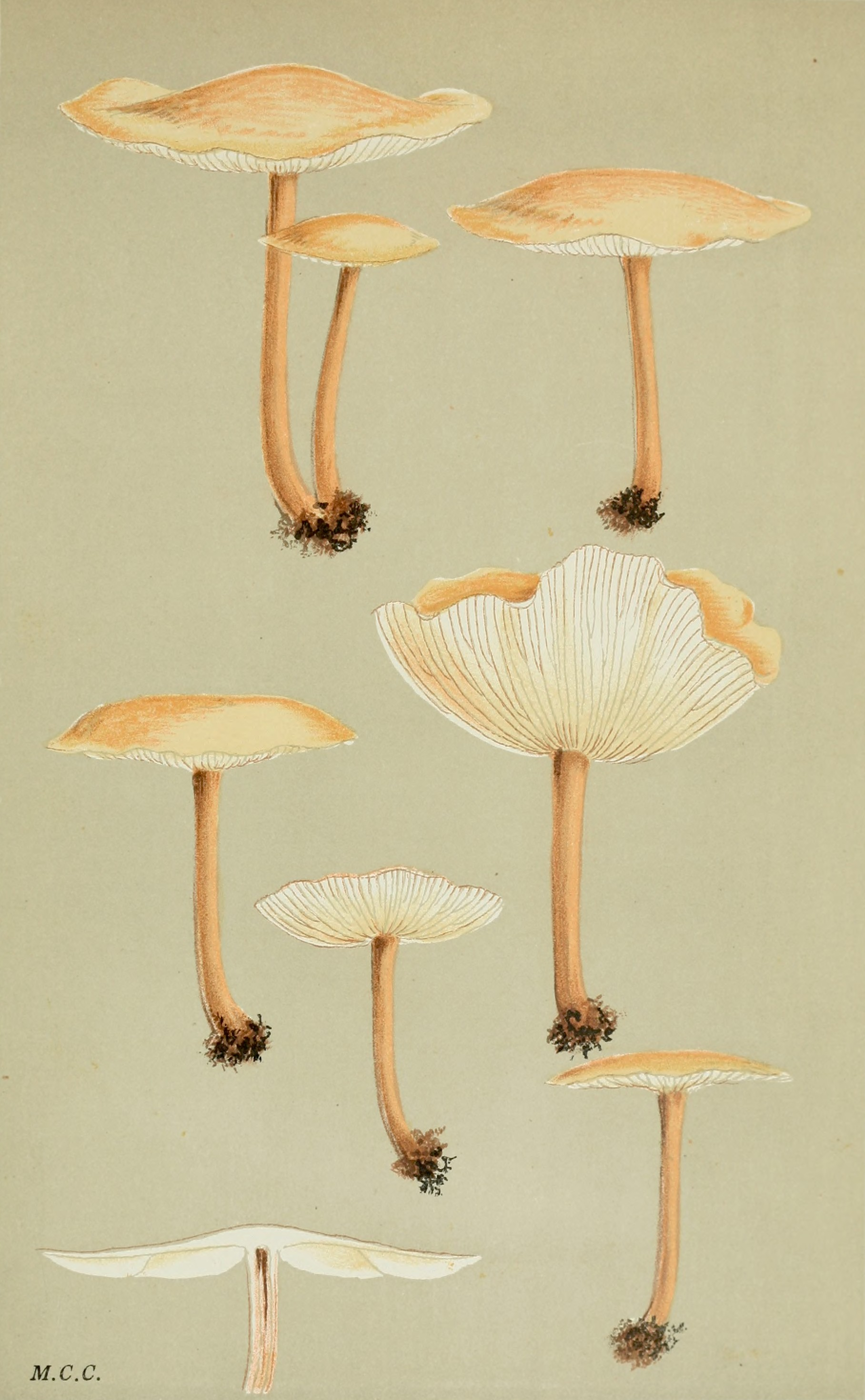 Agaricus (Collybia.) dryophilus Fr. in grassy places. Kew Gardens 1882.